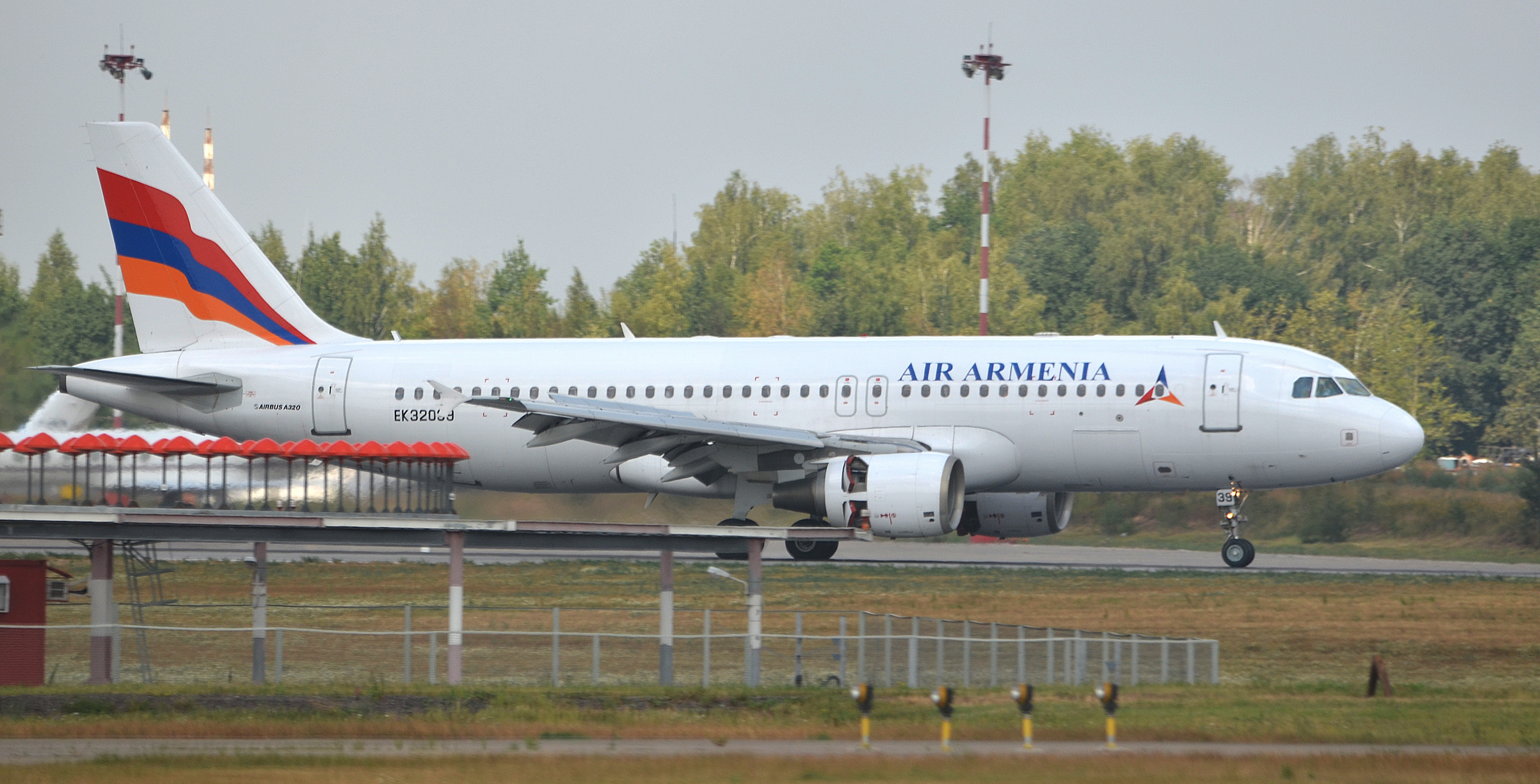 Airbus A320 of Air Armenia (EK-32039) at Vnukovo International Airport